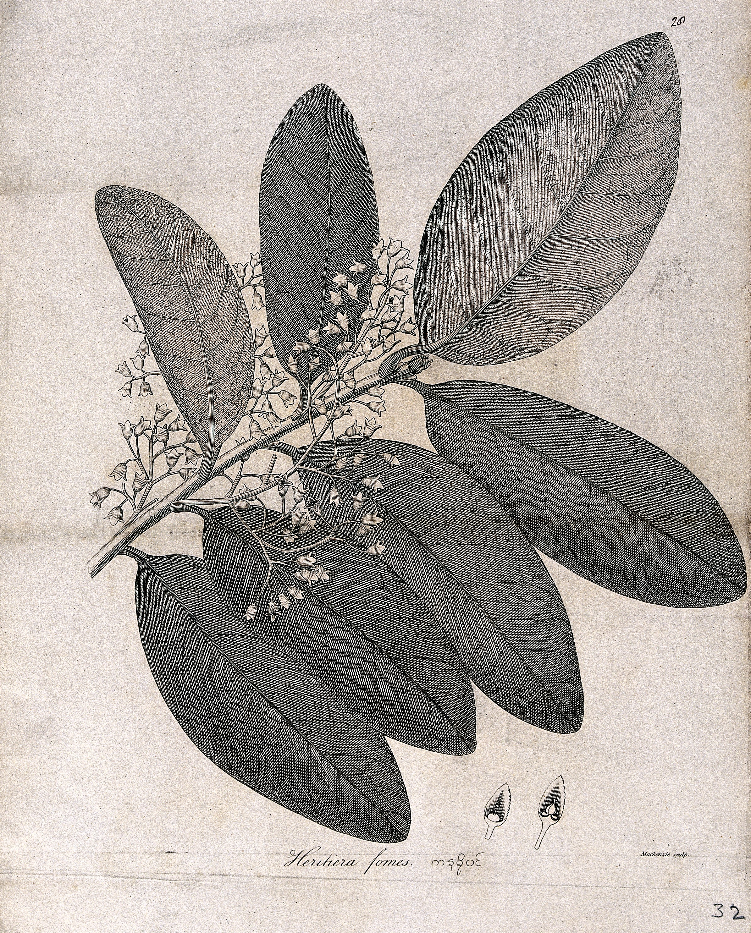 Heritiera fomes: flowering stem with floral segments. Line engraving by Mackenzie, c.1795. Iconographic Collections Keywords: Mackenzie; Michael Symes